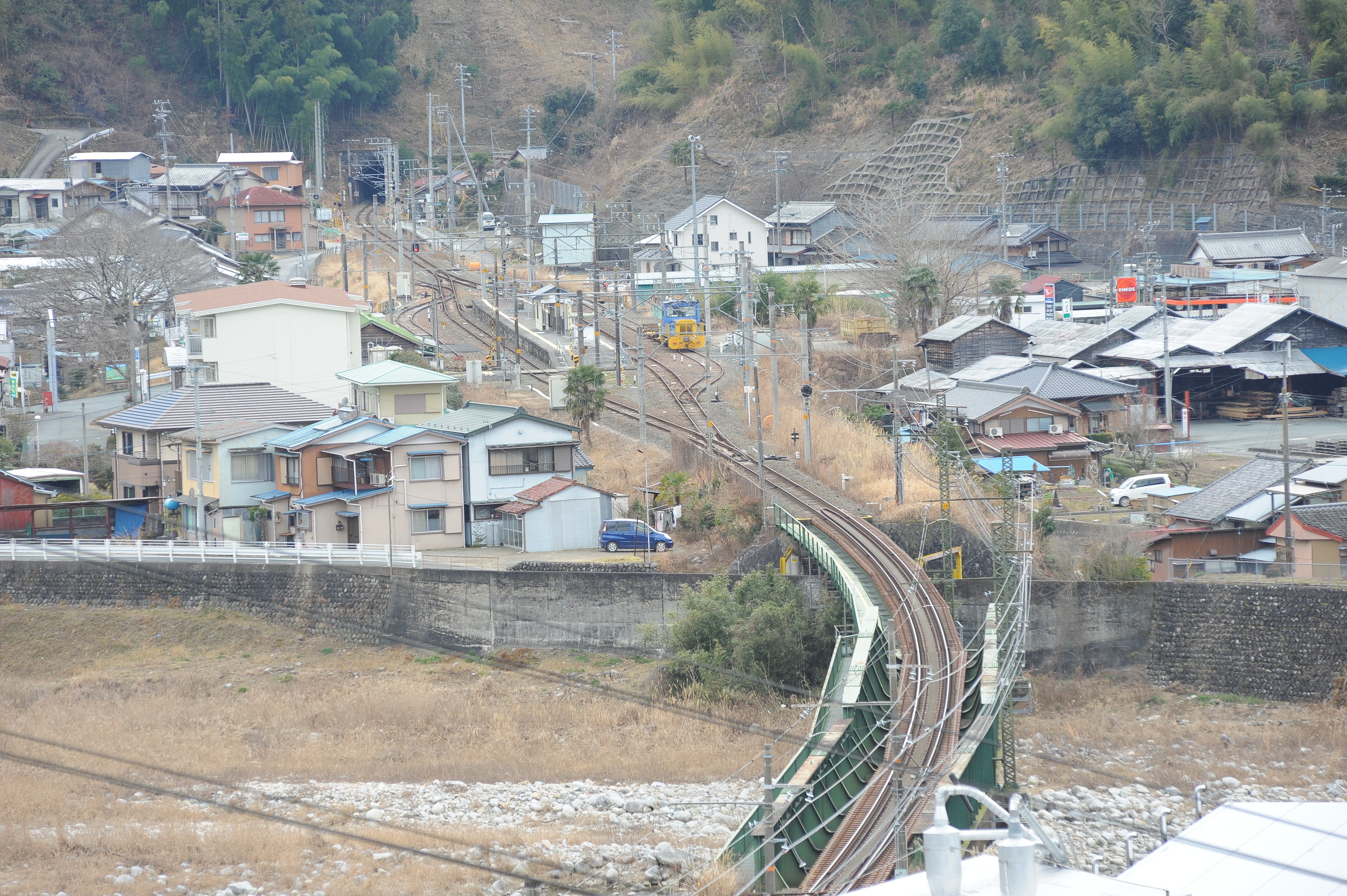 JR Central Urakawa station, Sakuma, Hamamatsu, Shizuoka